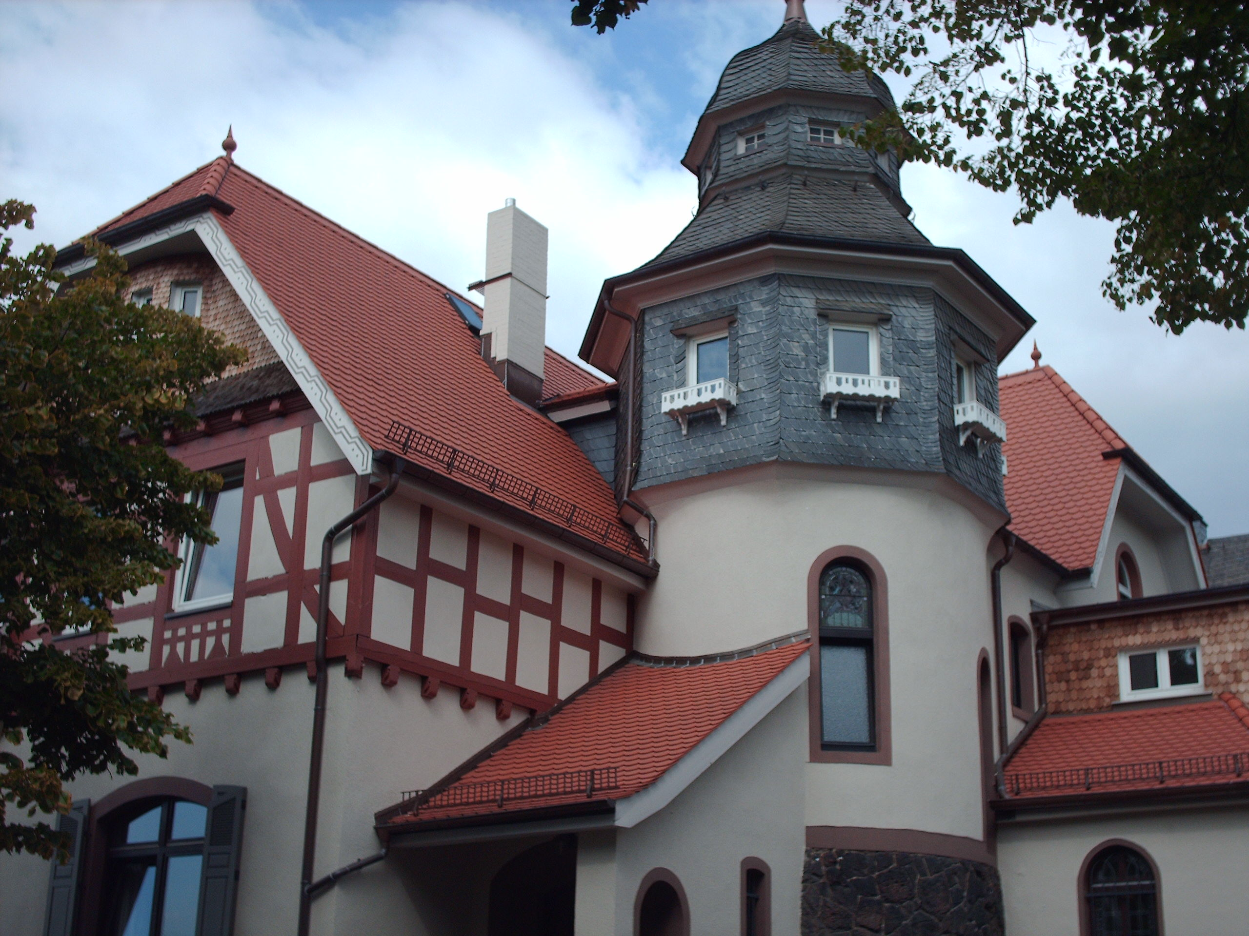 Verbindungshaus of Darmstadtia Gießen, Gießen, Germany check usage